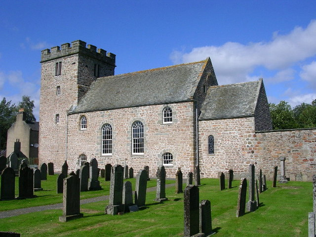 Norman Church at Monymusk